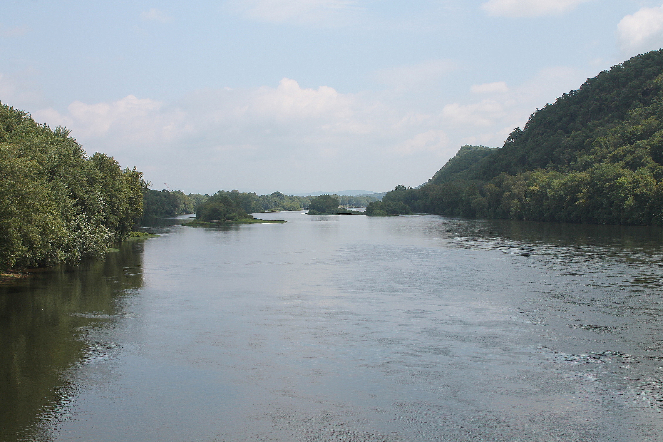 West Branch Susquehanna River looking upstream near Montgomery, Pennsylvania. Picture taken from the Pennsylvania Route 54 bridge